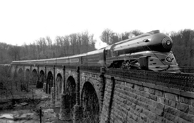 The Royal Blue train on the Baltimore and Ohio Railroad's Thomas Viaduct, south of Baltimore, Maryland, in a posed 1937 publicity photo. The locomotive is the B&O's "President"-class Pacific 4-6-2, streamlined by Otto Kuhler that year. Uploaded by User:JGHowes